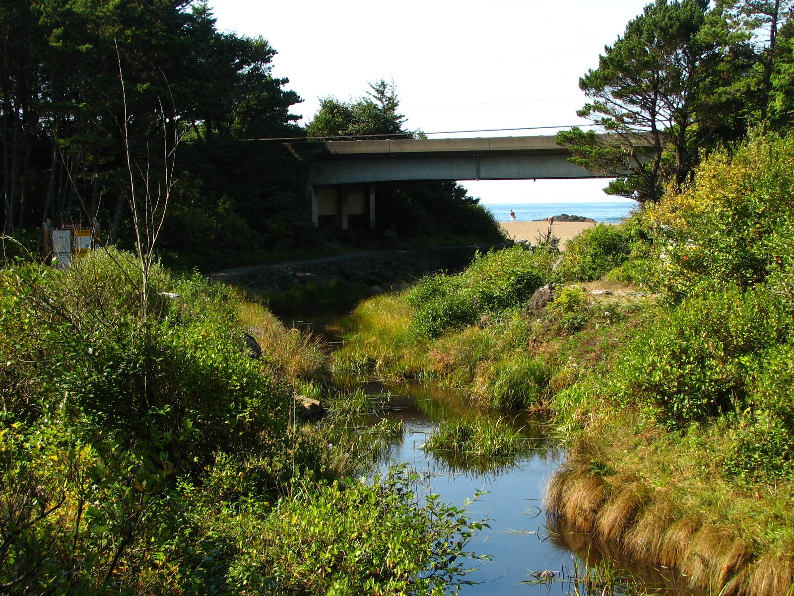 Fogarty Creek State Recreation Area near Depoe Bay, Oregon, United States. The view follows the creek beneath the US Highway 101 overpass to the Pacific Ocean.